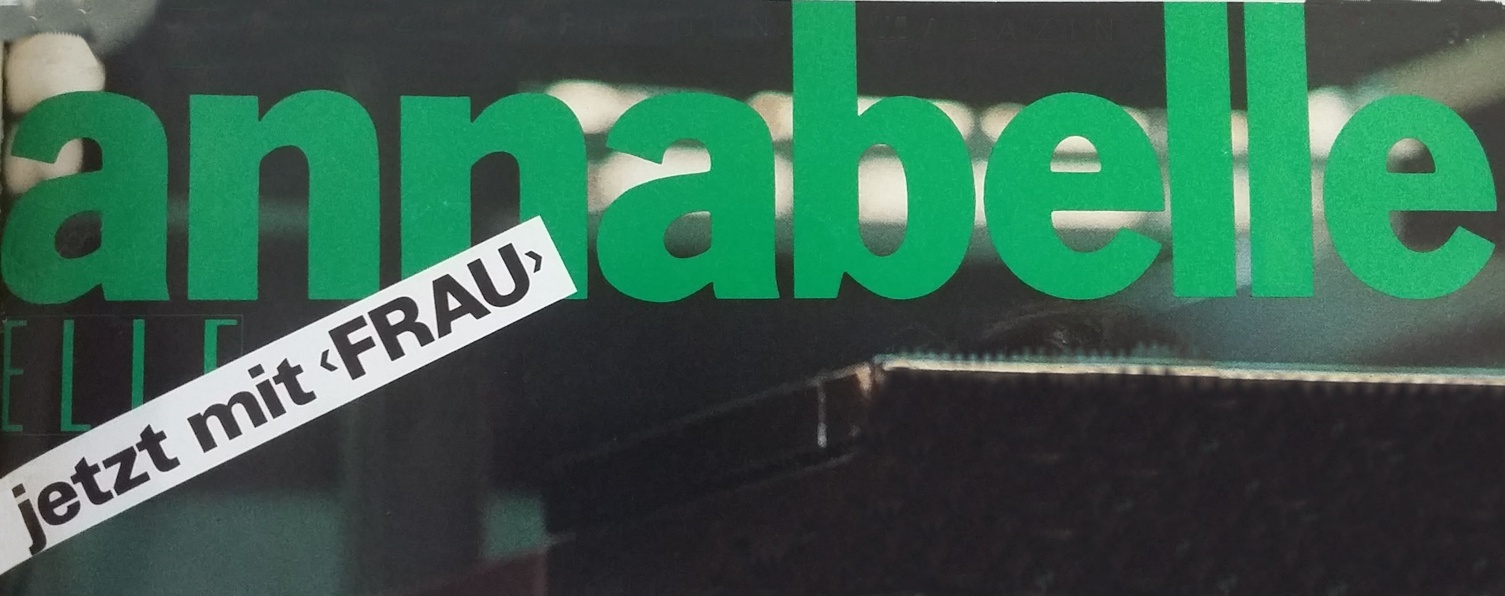 Logo of the Swiss Magazine Annabelle after integration of Elle and Frau